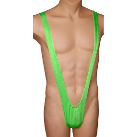 Computer "built" image to show what a "mankini" is, made famous by Borat.